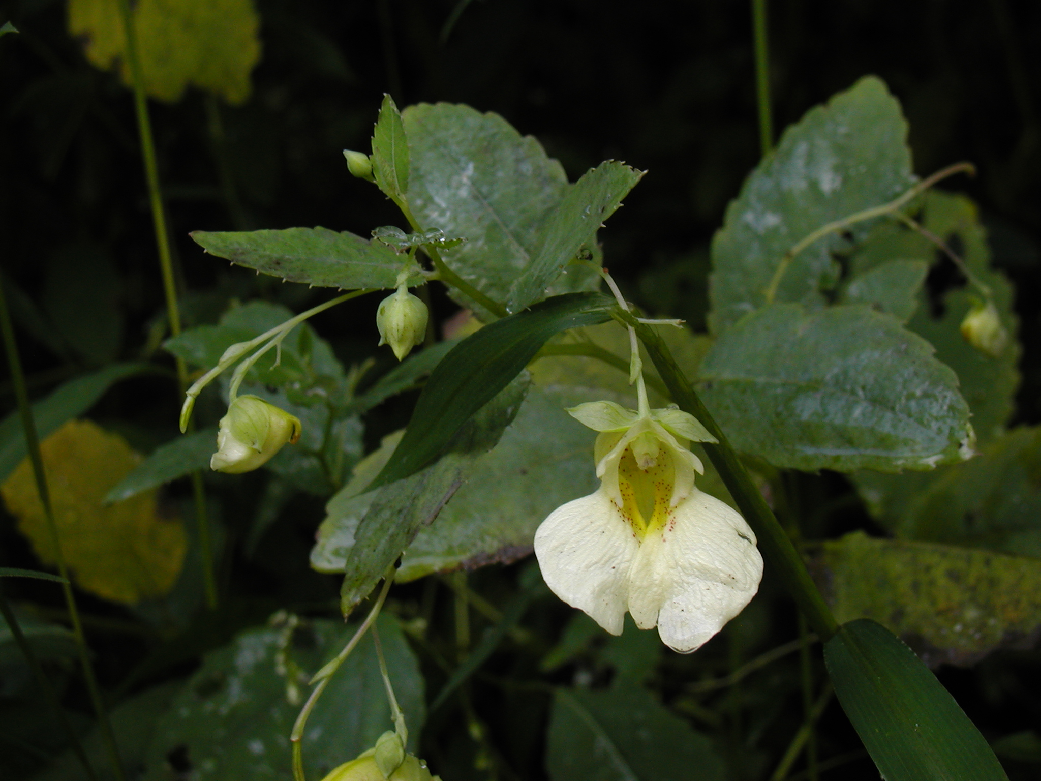 Flower, leaf, and buds of Impatiens pallida.